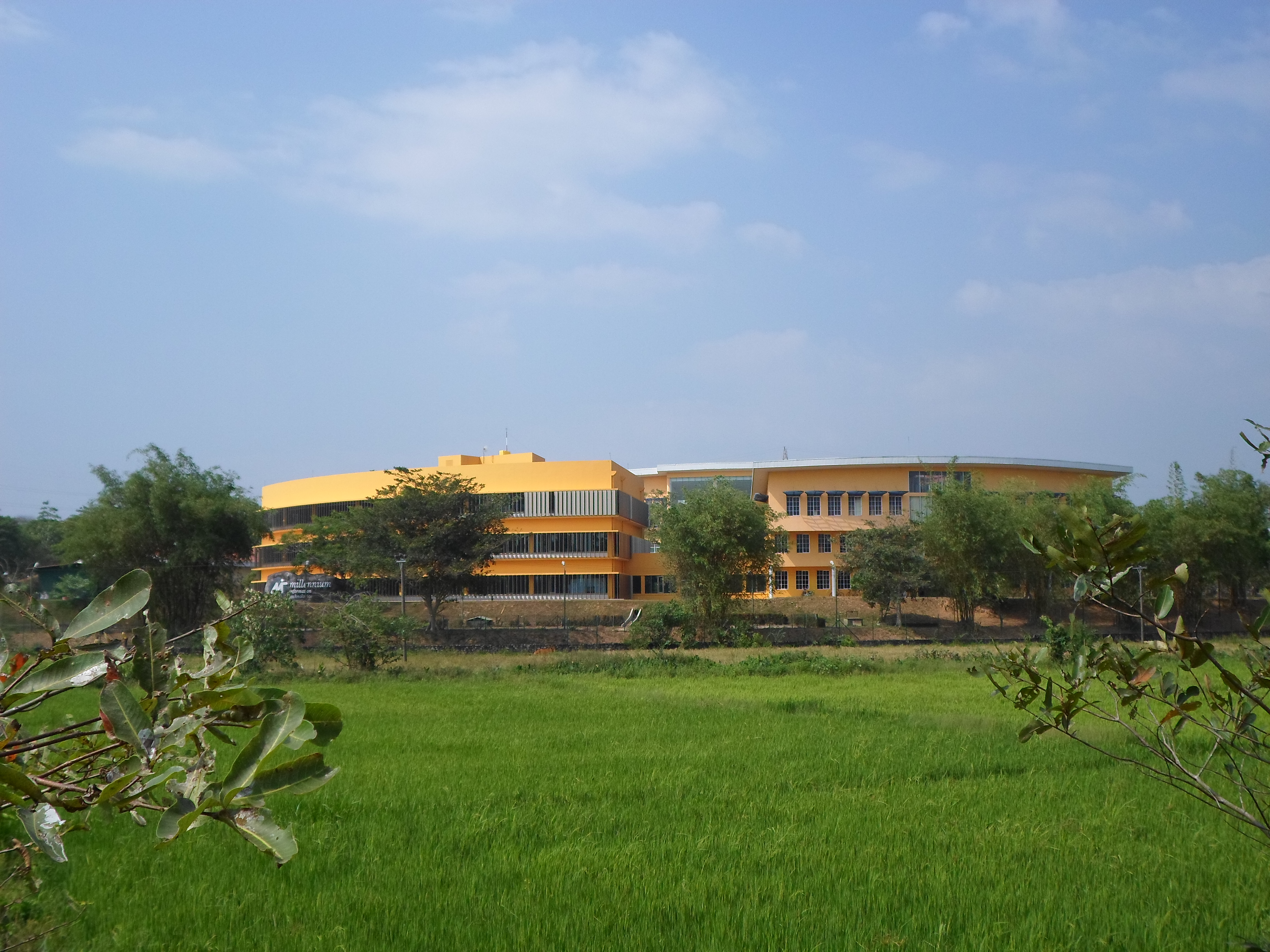 Photograph of Millennium Information Technologies.